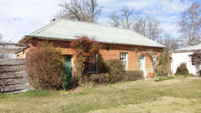 The Grange and Macquarie Plains Cemetery: The Cottage, dating from c.1836 on the north east side of the Grange farmhouse, forming the eastern side of the entrance courtyard